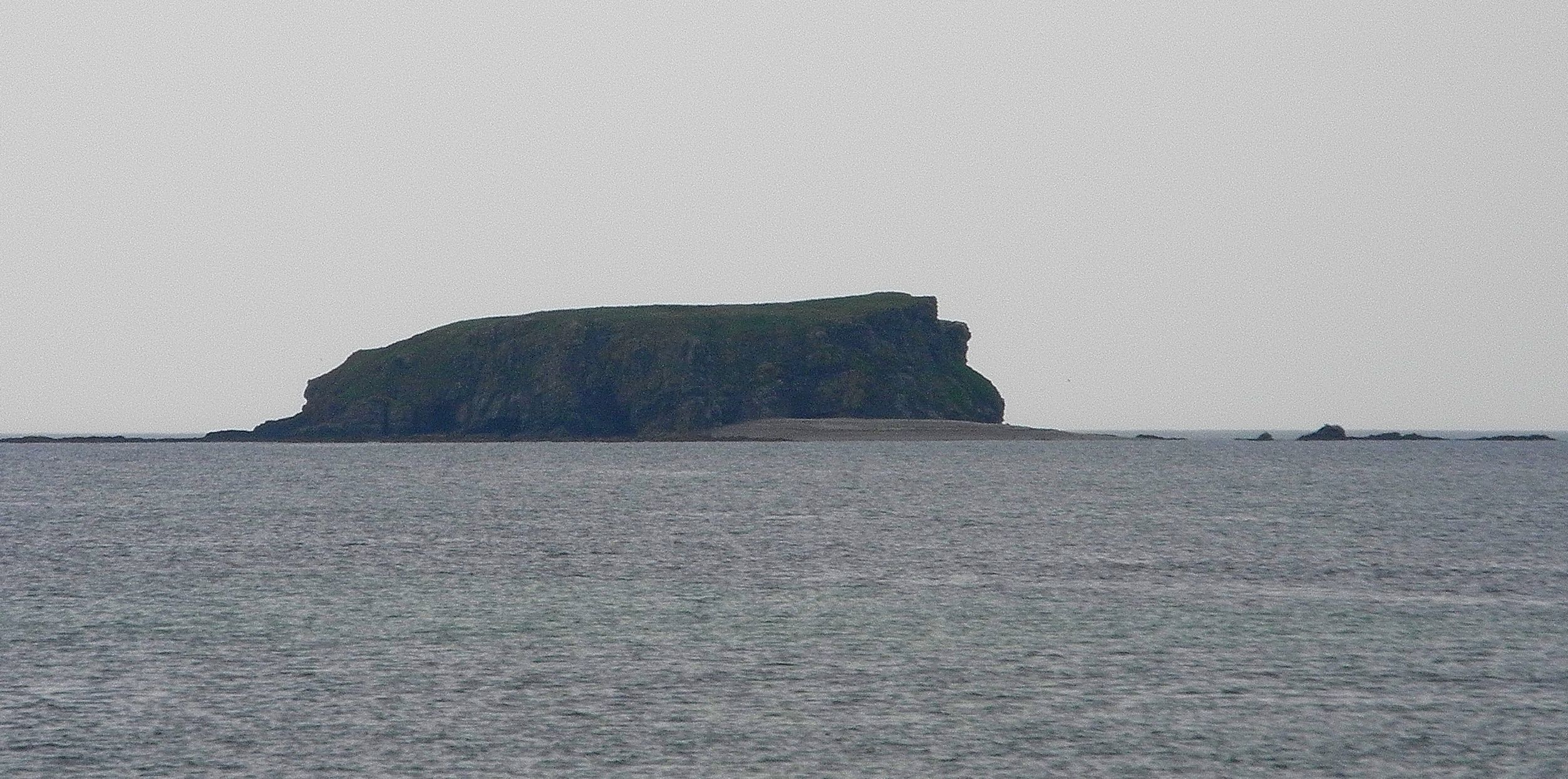 A photo of Glashedy, taken 29th July 2011